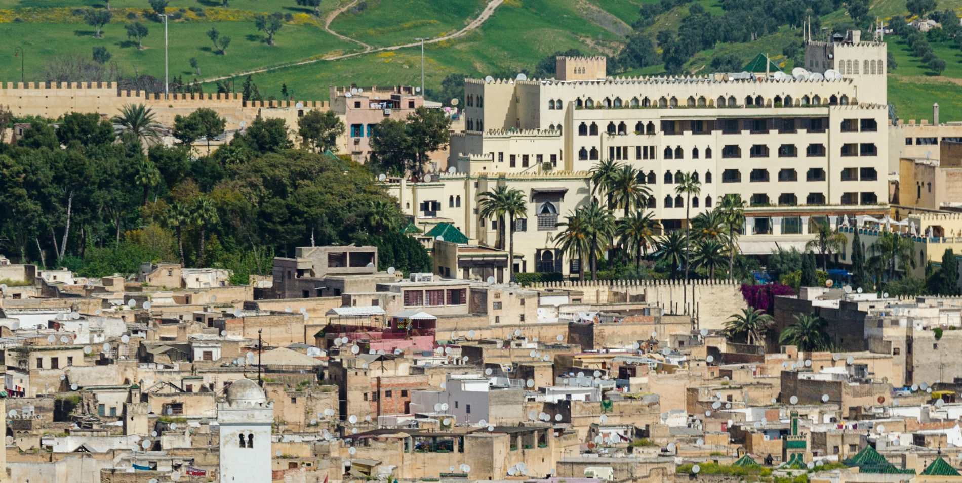 Photo of Fes el-Bali's skyline, cropped to focus on the Jamai Palace (Palais Jamai).